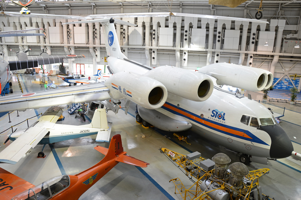 JQ8501 (cn 8501) Based on the successful Kawasaki C-1 transport, this was a one-off Quiet STOL research aircraft, developed by the National Aerospace Laboratory. Powered by four FRJ710 turbofan engines and making use of the Coandă effect. It was built to research STOL using upper surface blowing, aircraft noise reduction, fly-by-wire systems and composite materials construction and is now displayed at the Kakamigahara Aerospace Museum outside Gifu Air Base